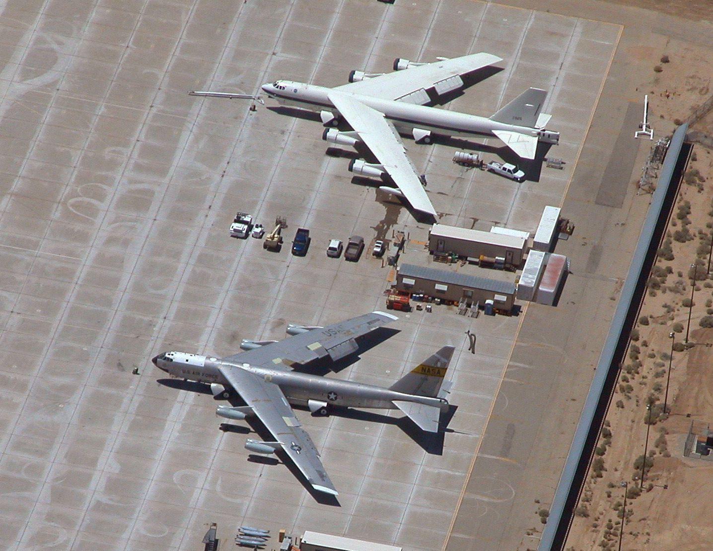 Two NASA B-52s at Edwards AFB